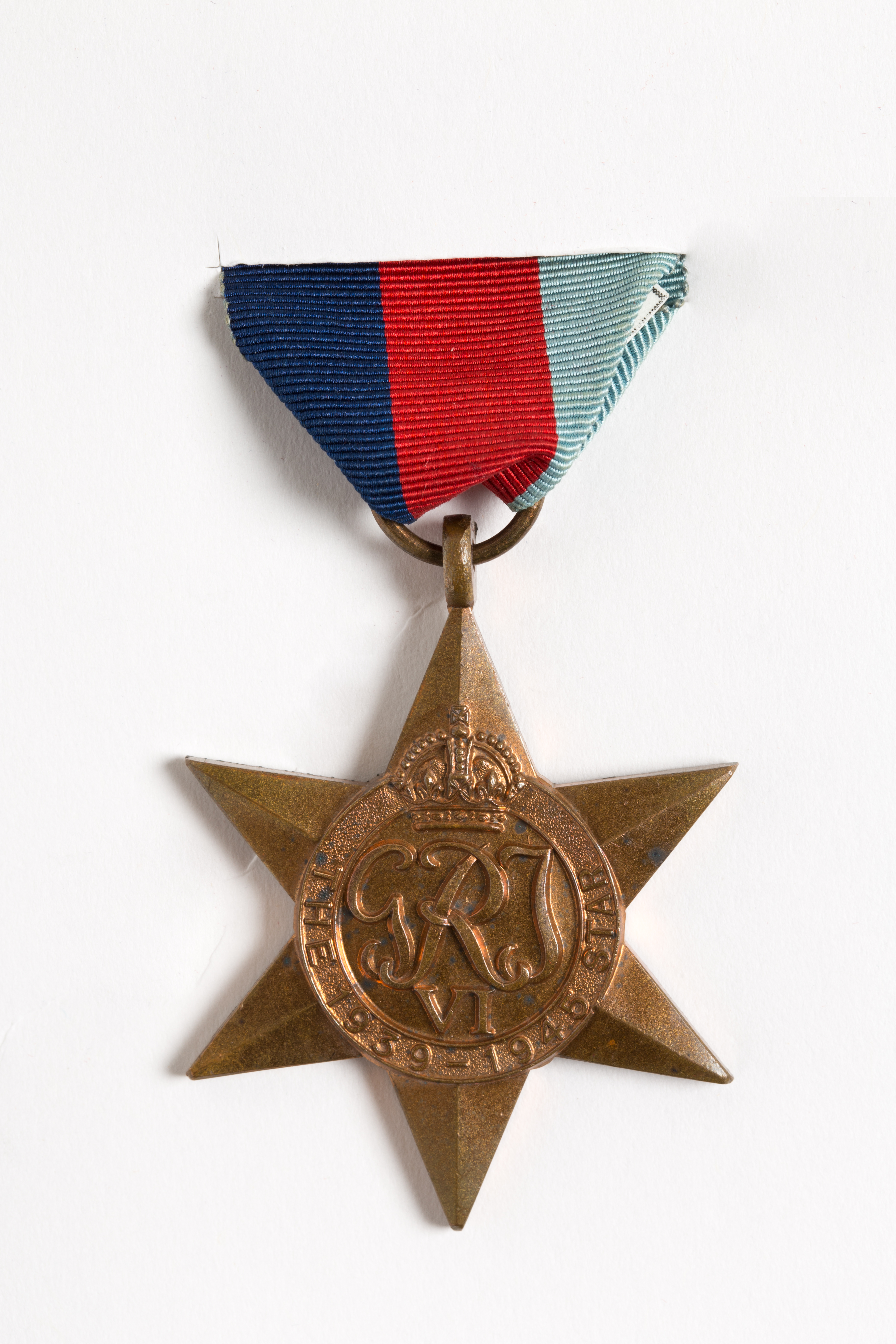 1939-45 Star, WW2 Awarded to Major Francis Albert Aldridge, DSO (1907-1976) bronze six pointed star 43mm diameter, ring suspender, with ribbon Obverse- In the centre the Royal cypher ‘GRI’ with ‘VI’ below. The cypher is surmounted by a crown on a circlet which bears the title of the star ‘THE 1939-1945 STAR’ reverse- plain Ribbon- 32mm wide grosgrain ribbon, colours of equal bands of dark blue, red and light blue.